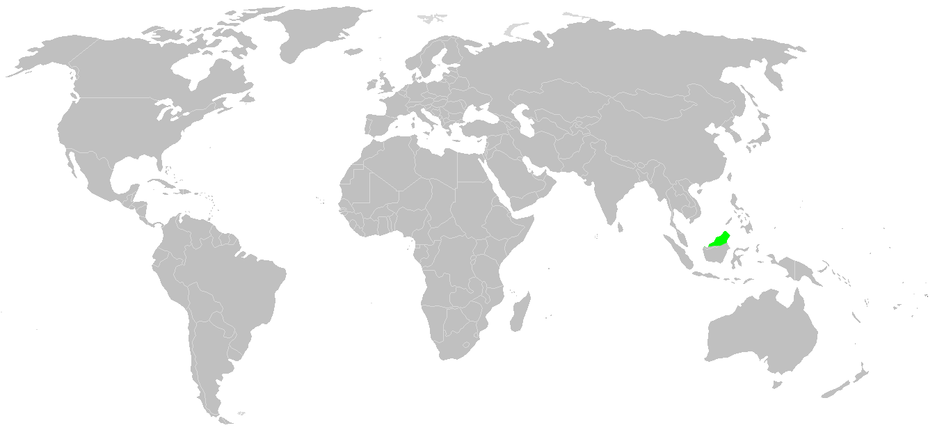 Known world distribution of Taivala invisitata (Salticidae), endemic to Sarawak, Borneo.